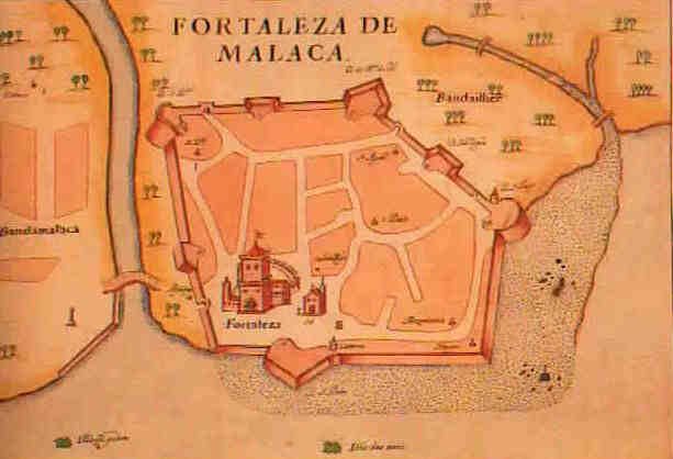 Malacca 1630s Title: Livro das Plantas das Fortalezas, Cidades e Povoaçoes do Estado da India Oriental 1600s. Period: 1600s Remark: Illustration of the Portuguese fort and the city of Malacca. 1600s.